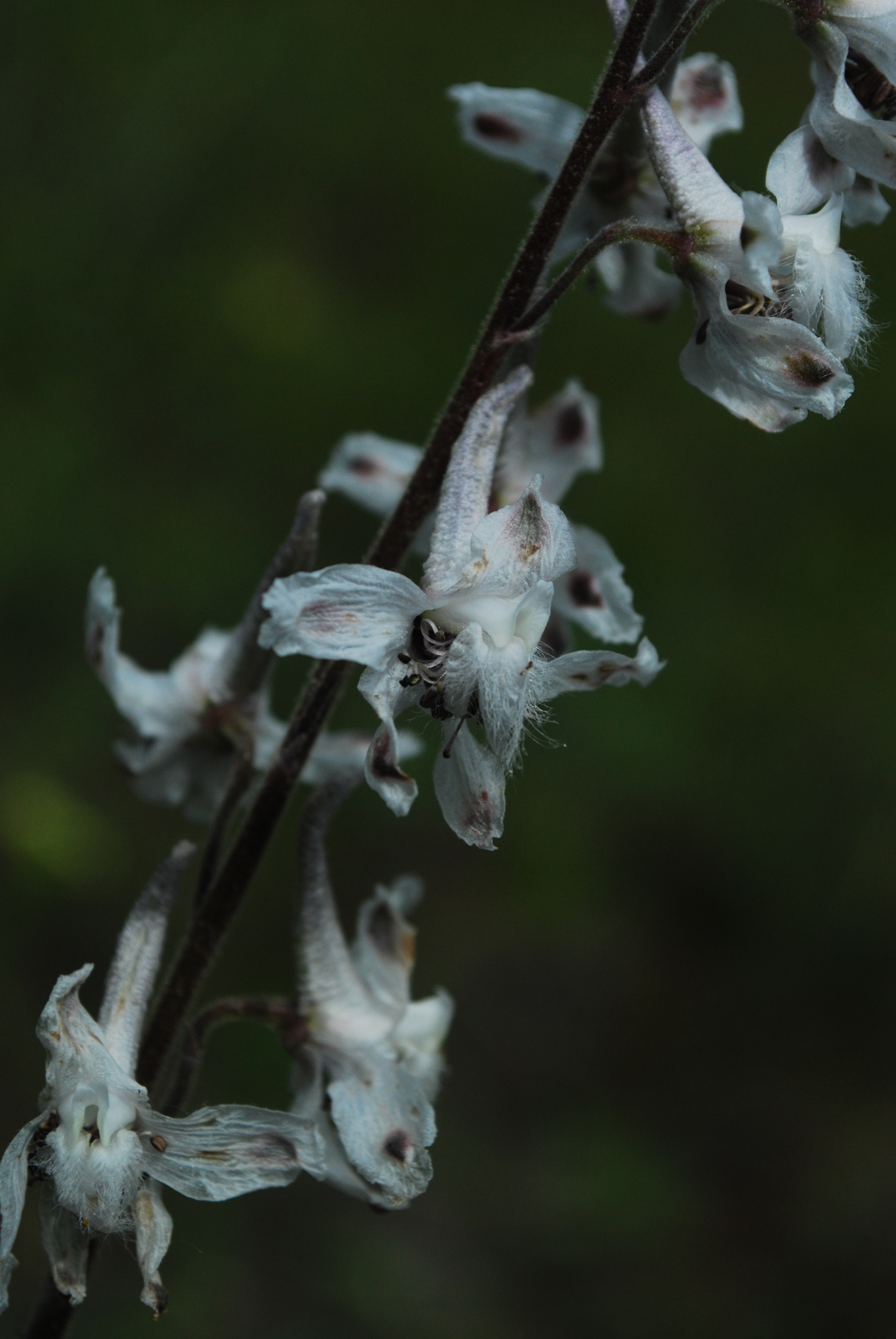 Delphinium carolinianum at Fort McCoy Barrens, WI, USA